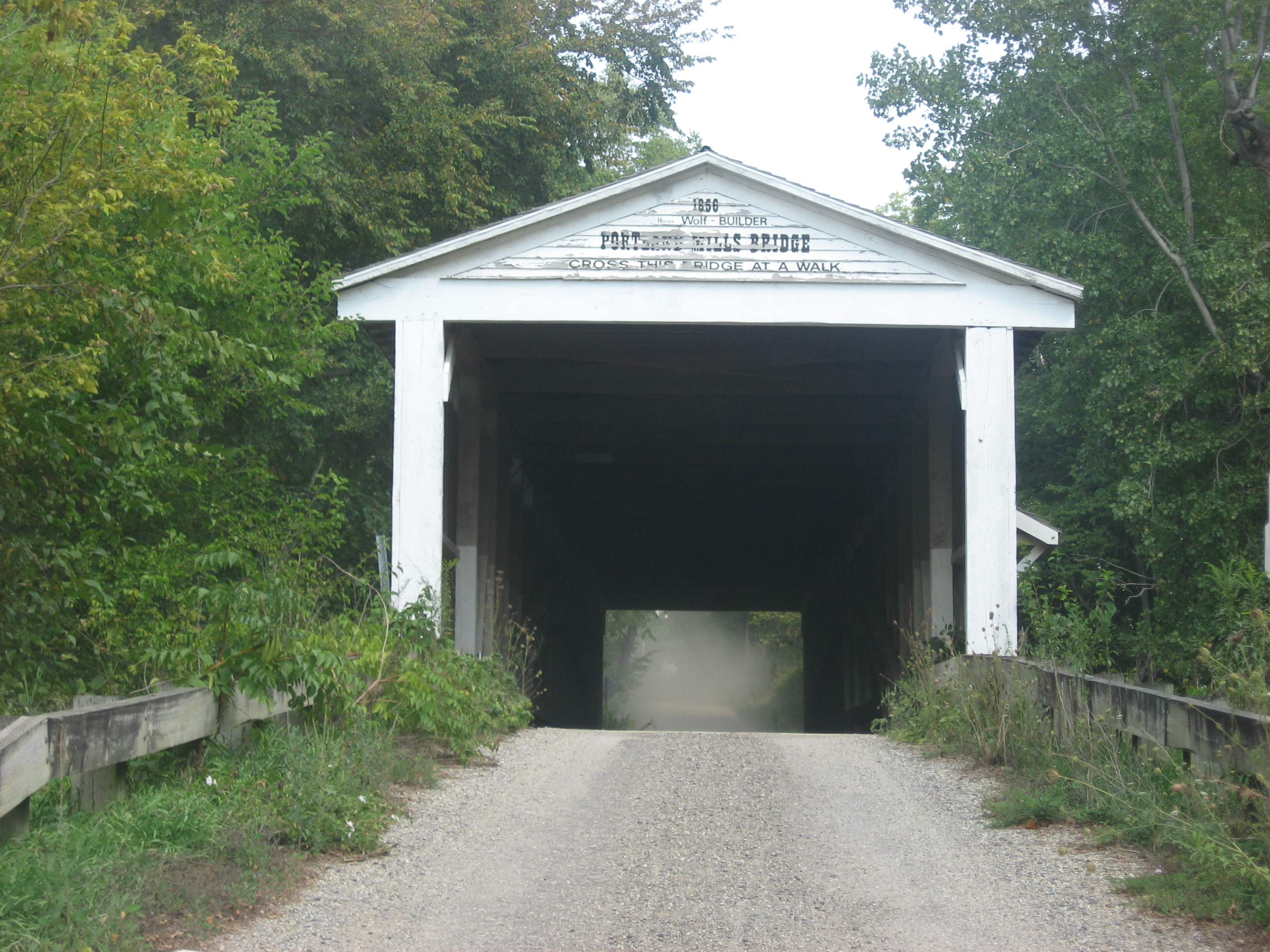 Western portal of the Portland Mills Covered Bridge, which carries County Road 650N over Little Raccoon Creek east of Marshall in Greene Township, Parke County, Indiana, United States. Built in 1856, it is listed on the National Register of Historic Places.